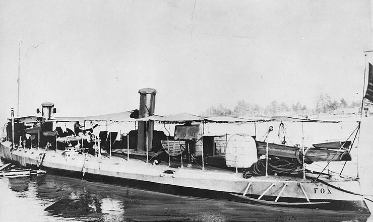 USS Fox (Torpedo Boat # 13) In a West Coast harbor, circa the early 1910s. Courtesy of the Naval Historical Foundation, Washington, D.C.; donation of BMC E.B. Smith, USNR, 1961. U.S. Naval History and Heritage Command Photograph.